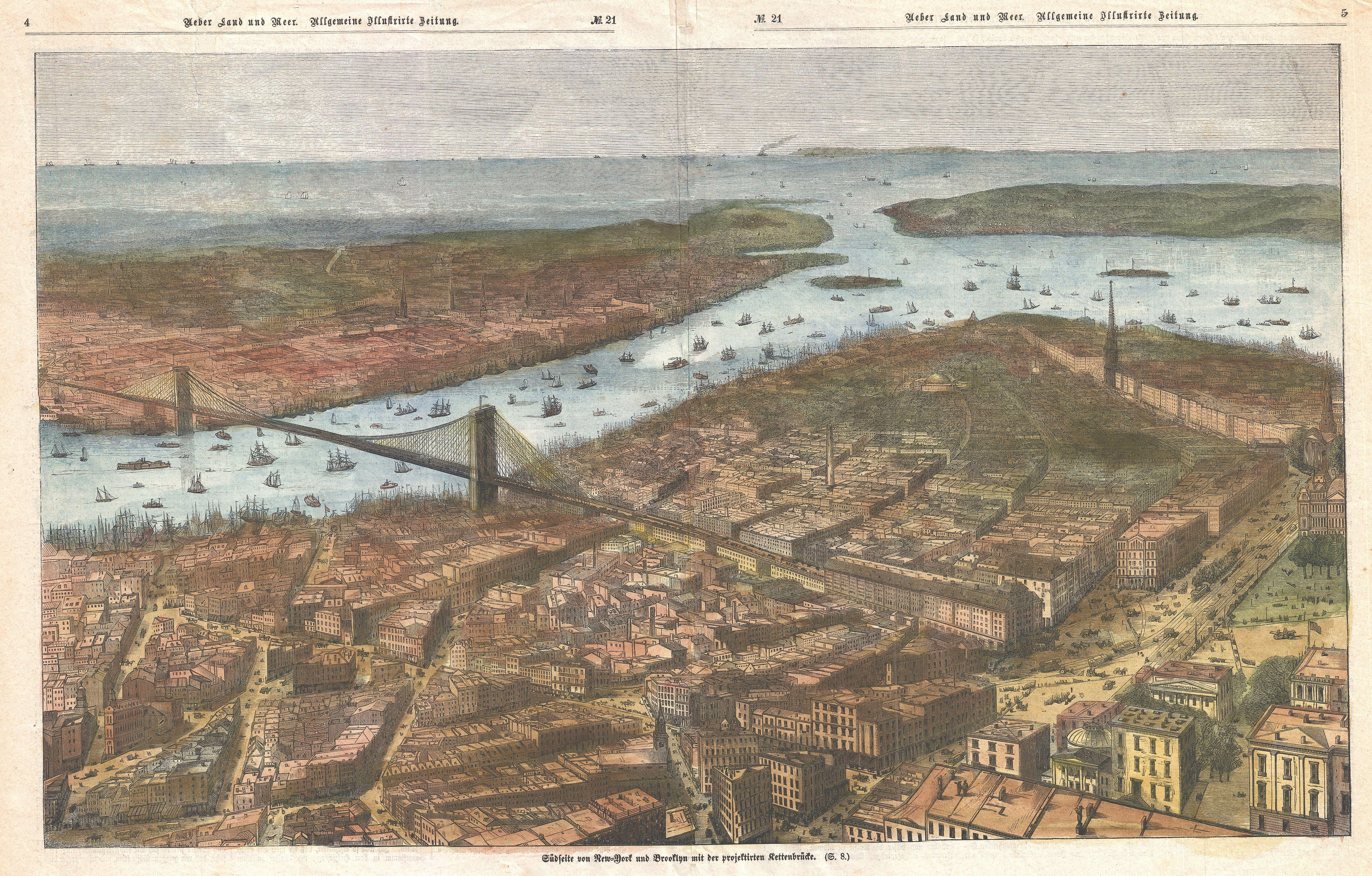 This is an unusual c. 1883 view of New York City looking south from the Soho area towards Brooklyn, the Brooklyn Bridge, Staten Island, the East River, and New York Harbor. Numerous ships sail on the East River as it flows under the Brooklyn Bridge into New York Harbor. Published in the German newspaper "Über Land und Meer. Allgemeine illustrirte Zeitung" to illustrate the opening of the Brooklyn Bridge in 1883.